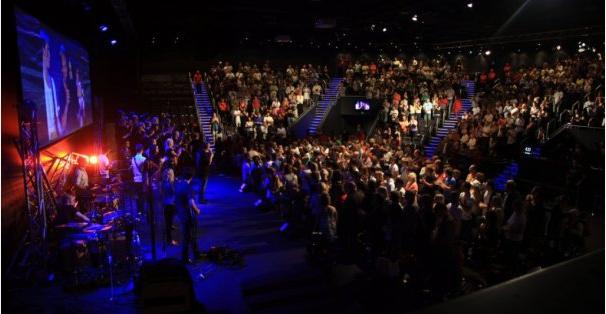 Horizon Church Auditorium